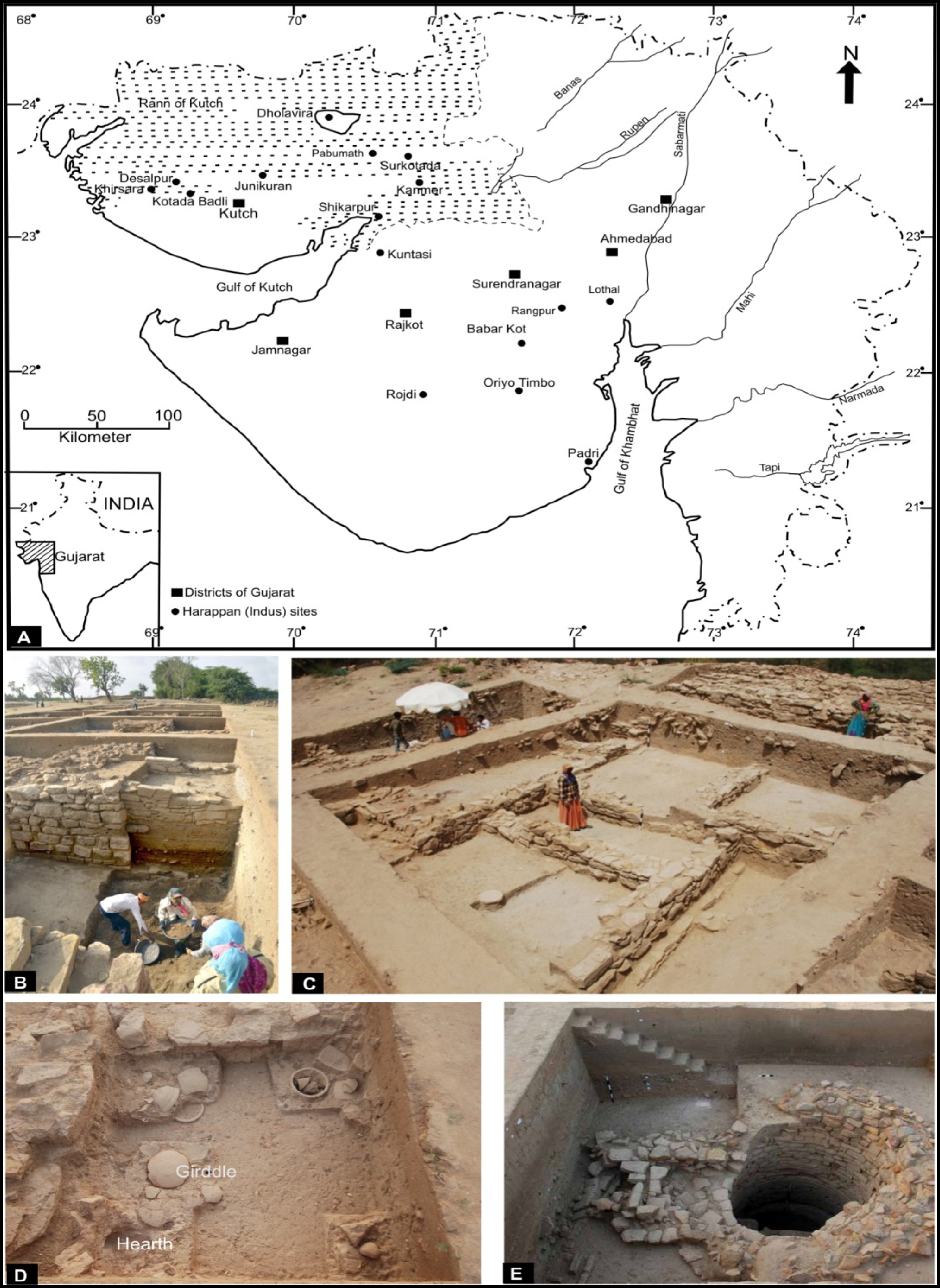 Map of Gujarat showing Khirsara and Indus Valley Civilization Khirsara excavation site